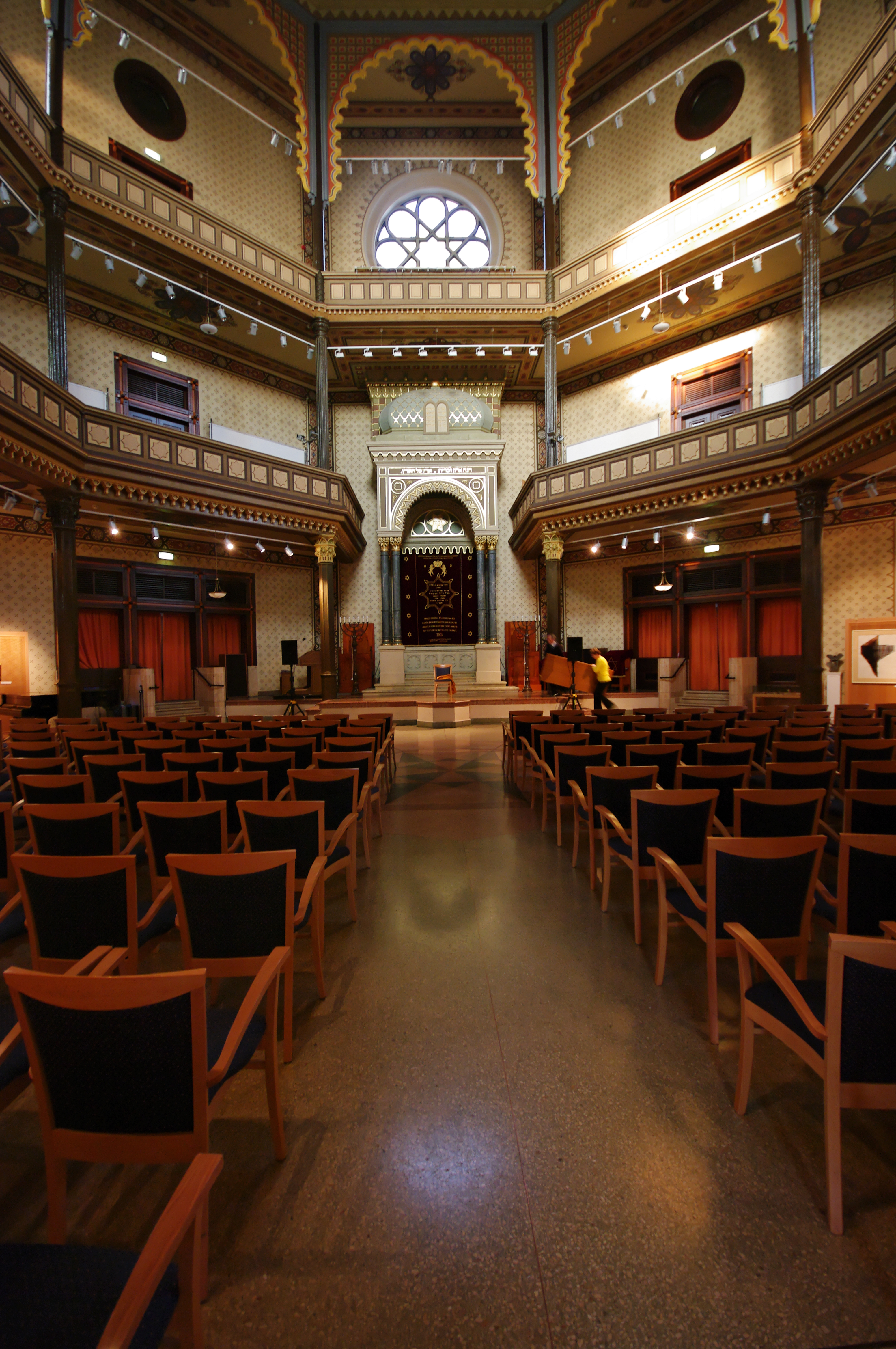 Interior of the Synagogue of Gyor, Hungary.